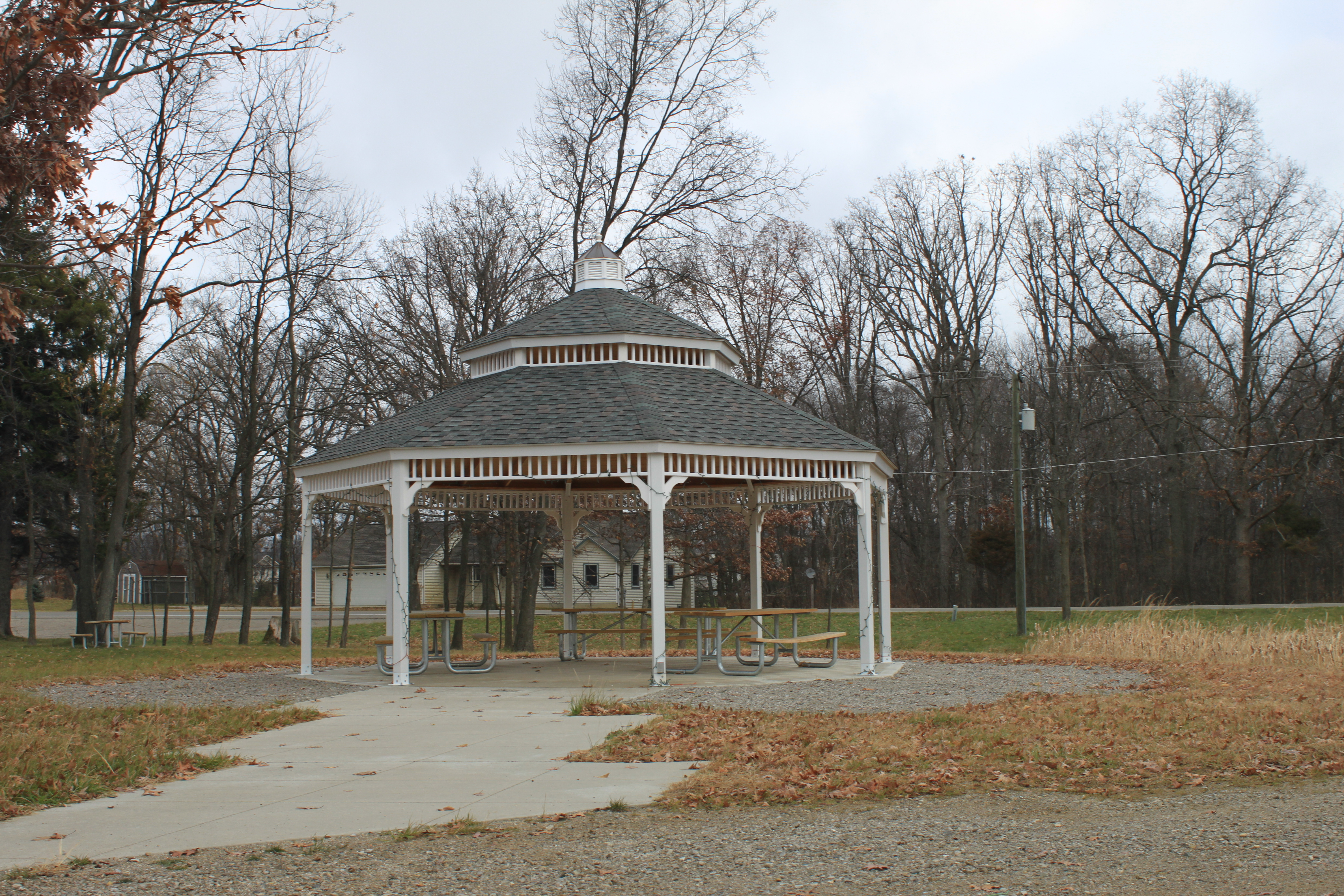 Marion Township Park #2 Gazebo, Coon Lake Road, Livingston County, Michigan